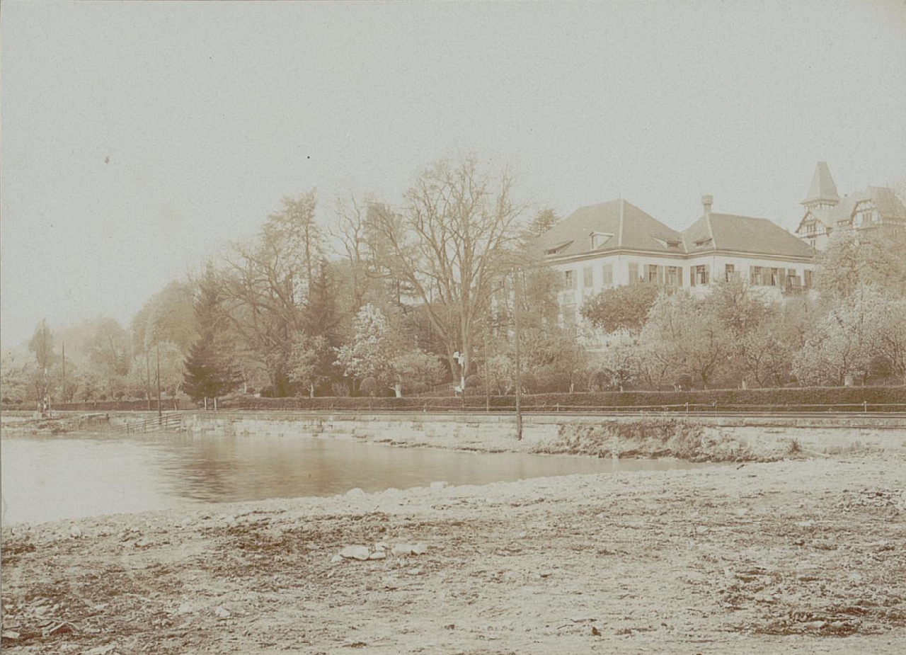 The Muraltengut before the railway line was built